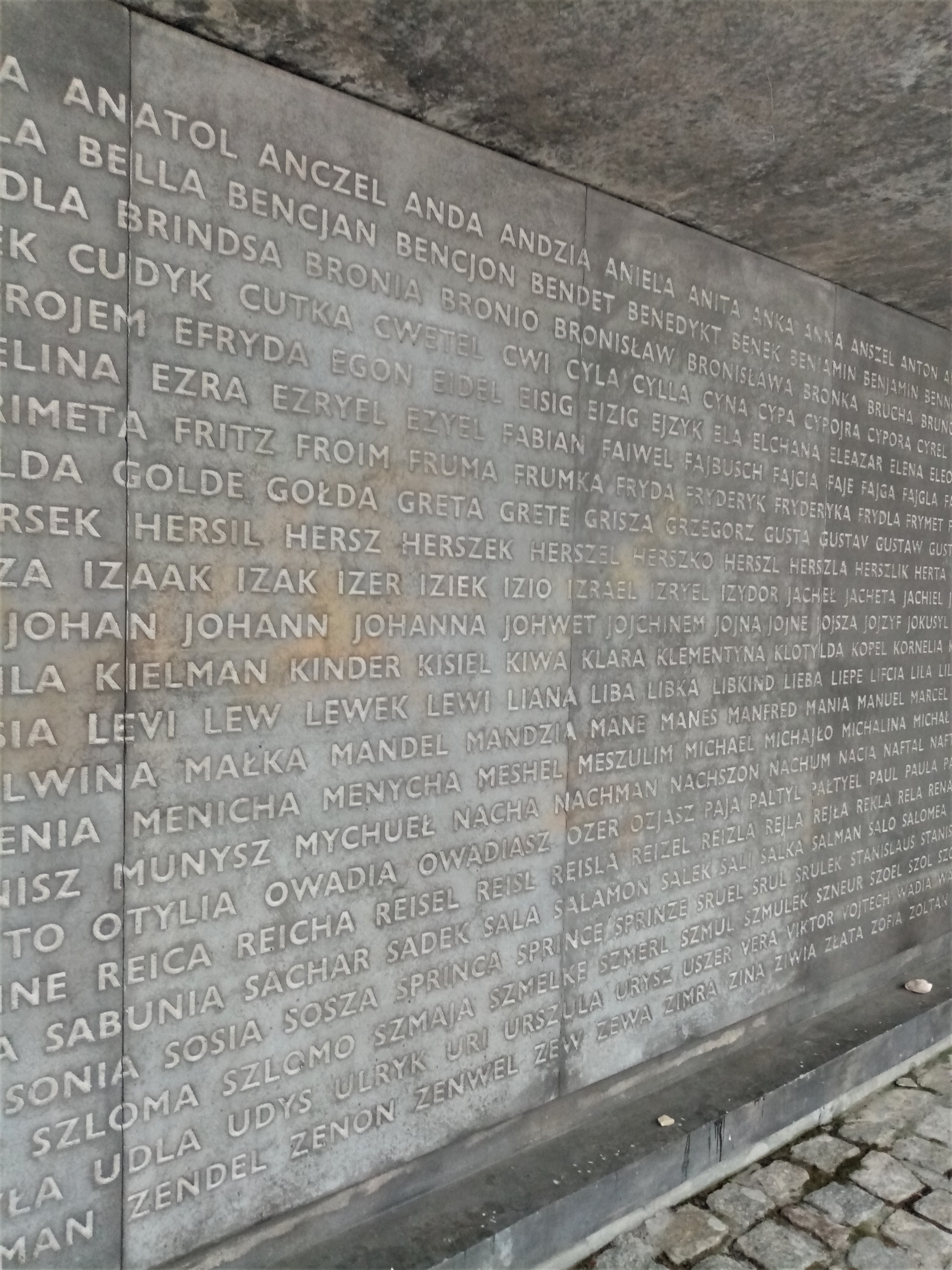 Museum and Memorial in Bełżec, commemorating victims of the Nazi-German extermination camp. Jewish names in the Ohel Niche.